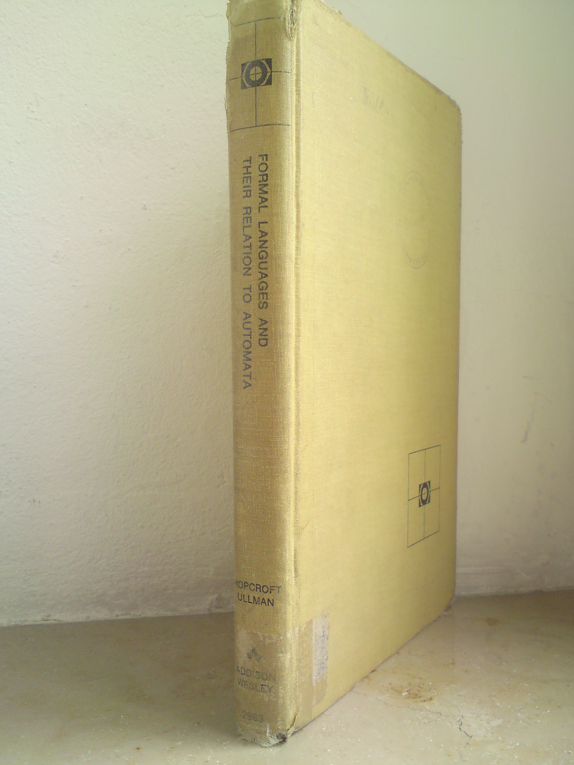 Cover of the book "Formal Languages and their Relation to Automata" by Hopcroft and Ullman, first edition 1968. The original 1968 edition of Hopcroft and Ullman's famous automata theory textbook. Photo taken by Hermann Gruber.